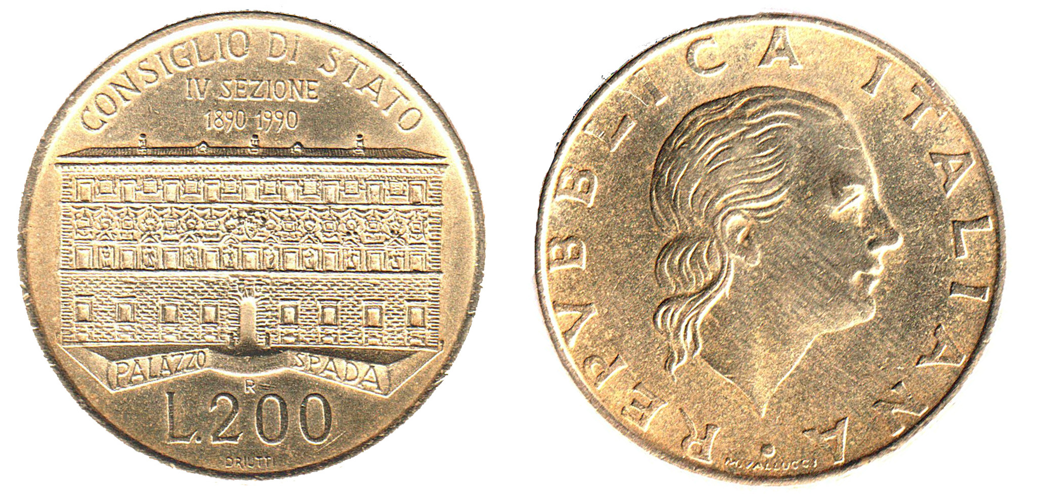 200 lire coin for the Italian State Counsil 1990